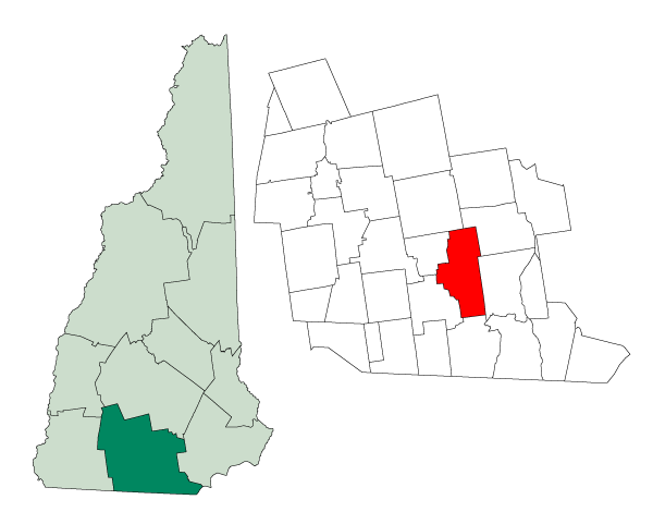 Map of a municipality in Hillsborough County, New Hampshire